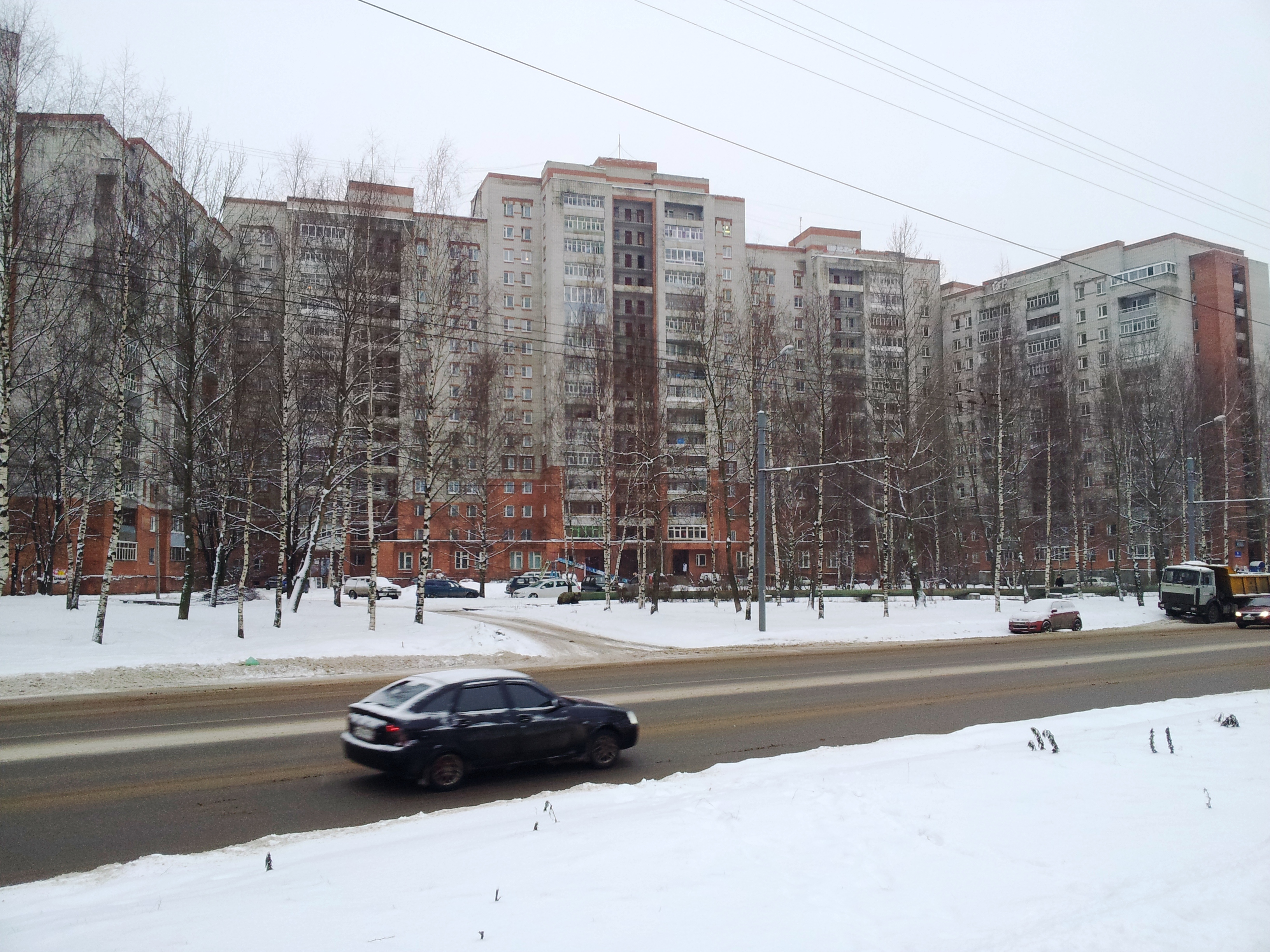 "Kaskadnik" (cascade) - high-rise apartment building with variable number of storeys on Furmanova street, 9 in Rybinsk, Russia